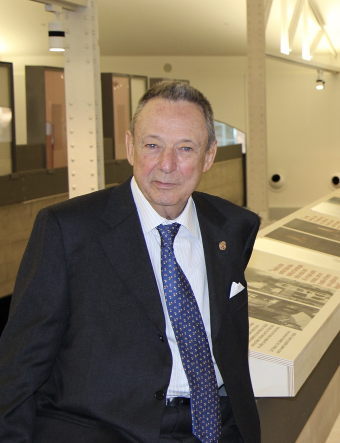 Gioacchino Lanza Tomasi, Madrid